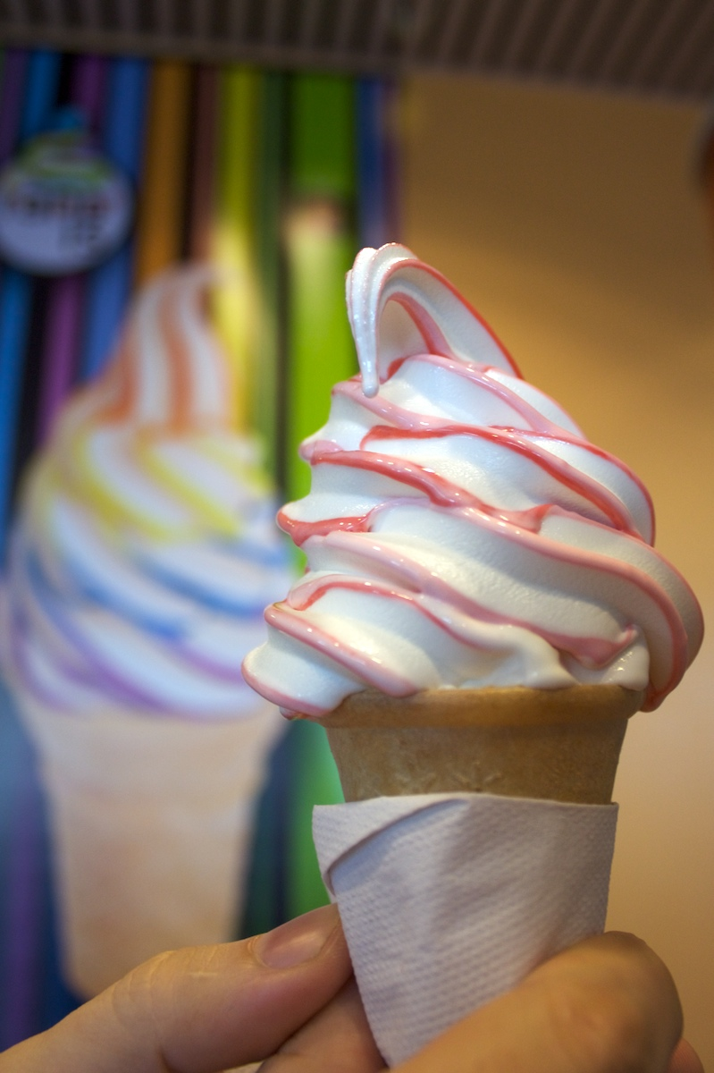 It's a year since McDonald's disappeared from Iceland, when the franchise was given up once the owner realised it would be cheaper to buy food locally. The three restaurants were renamed "Metro", but for a few months you could still buy a "Metro Happy Meal" with a "Metro Happy Meal toy" and a "Metro Flurry" ice cream in McDonald's boxes until the stock ran out. To celebrate the anniversary we went to buy a Randís, the ice cream you see here. We wanted to see one as earlier this year someone found they weren't quite as appetising as the marketing made out. Disappointingly, ours looked good and tasted good. No Iggy Pop lookalikes for us.